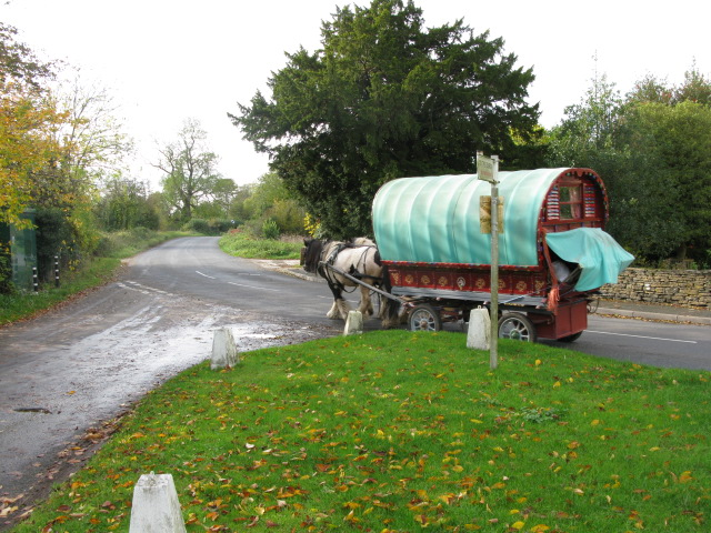 Stepping back in time A traditional style horse drawn caravan - in black and white it could be a scene from 100 years earlier! Seen leaving the village of Down Ampney on a road of the same name.